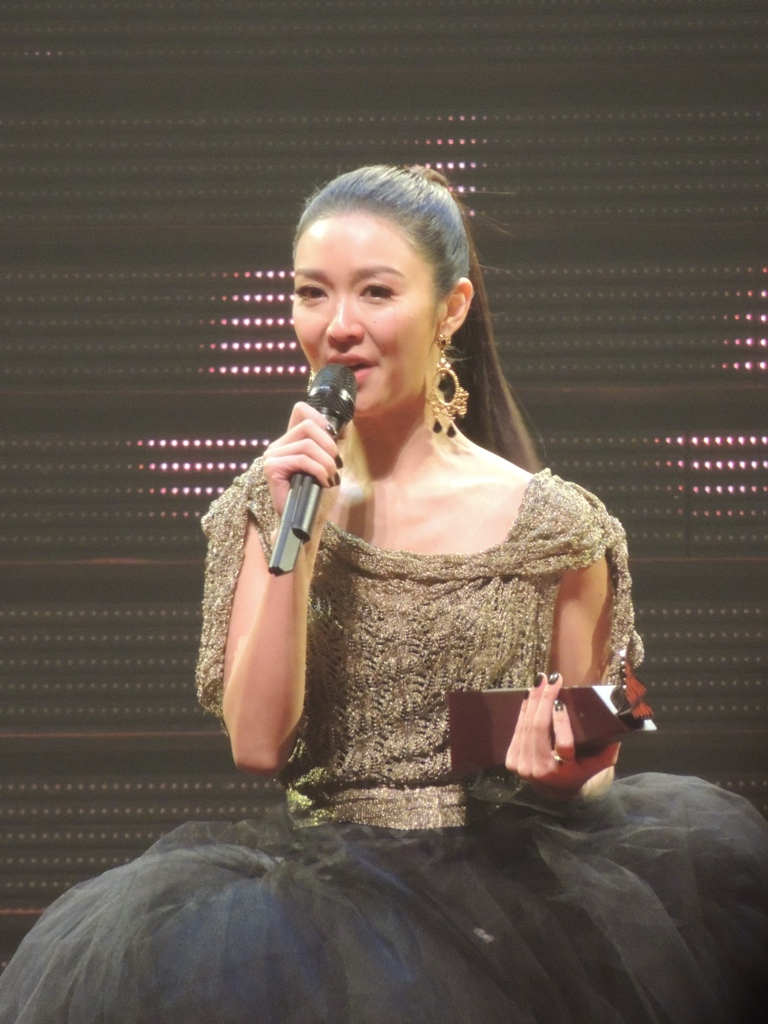 Ultimate Song Chart Awards 2013